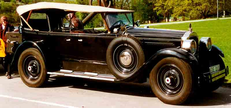 Packard Second Series 243 Touring 1926